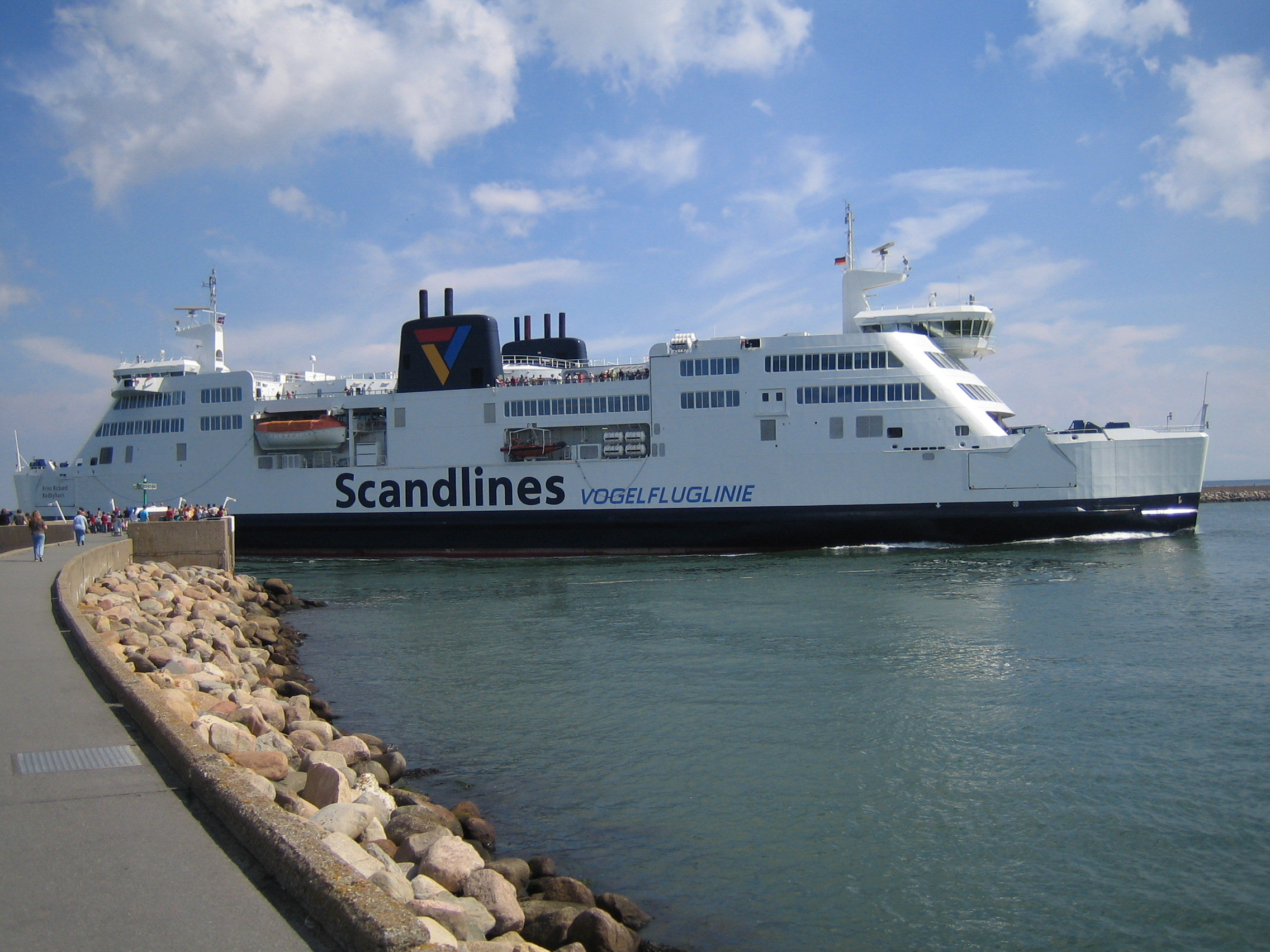 Prins Richard, one of the ships of the Vogelfluglinie (flying bird line) in the harbor of Puttgarden, Germany. IMO Number: 9144419 MMSI Number: 219000429 Callsign: OZLB2 Length: 140 m Beam: 24 m